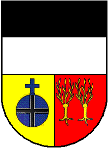 Coat of arms of Homburg, Canton of Thurgau, SwitzerlandEsperanto: Blazono de Homburg, Kantono Turgovio, Svislando